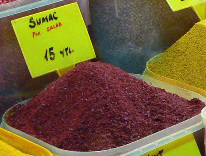 Sumac at spice market